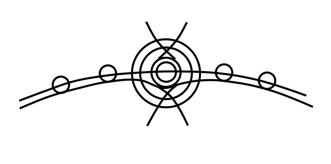 粵語: Wynn Palace Musical Fountain - Layout Of Nozzle(Old Version)